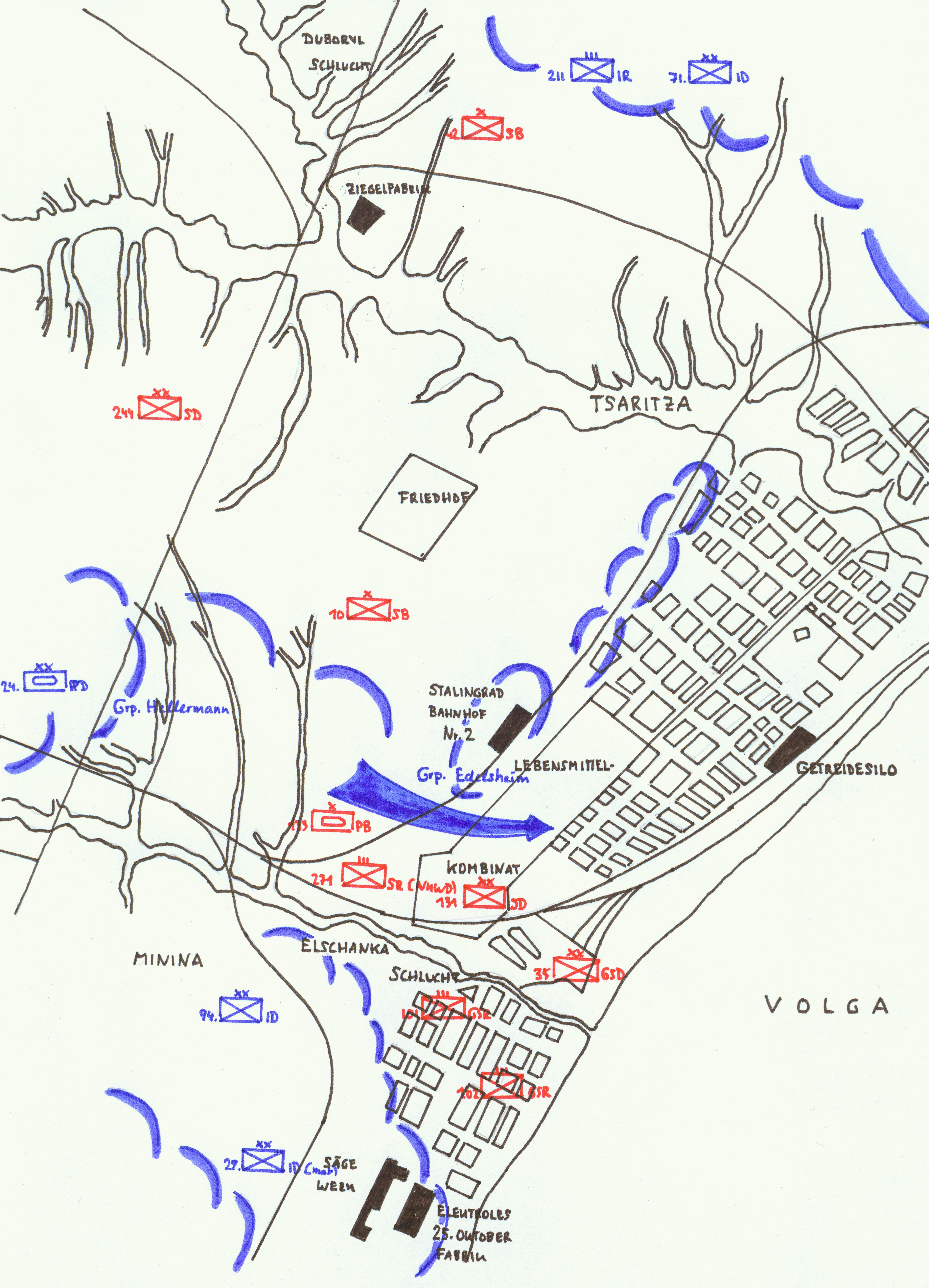 sketch outline drawn-out according roughly to Glantz